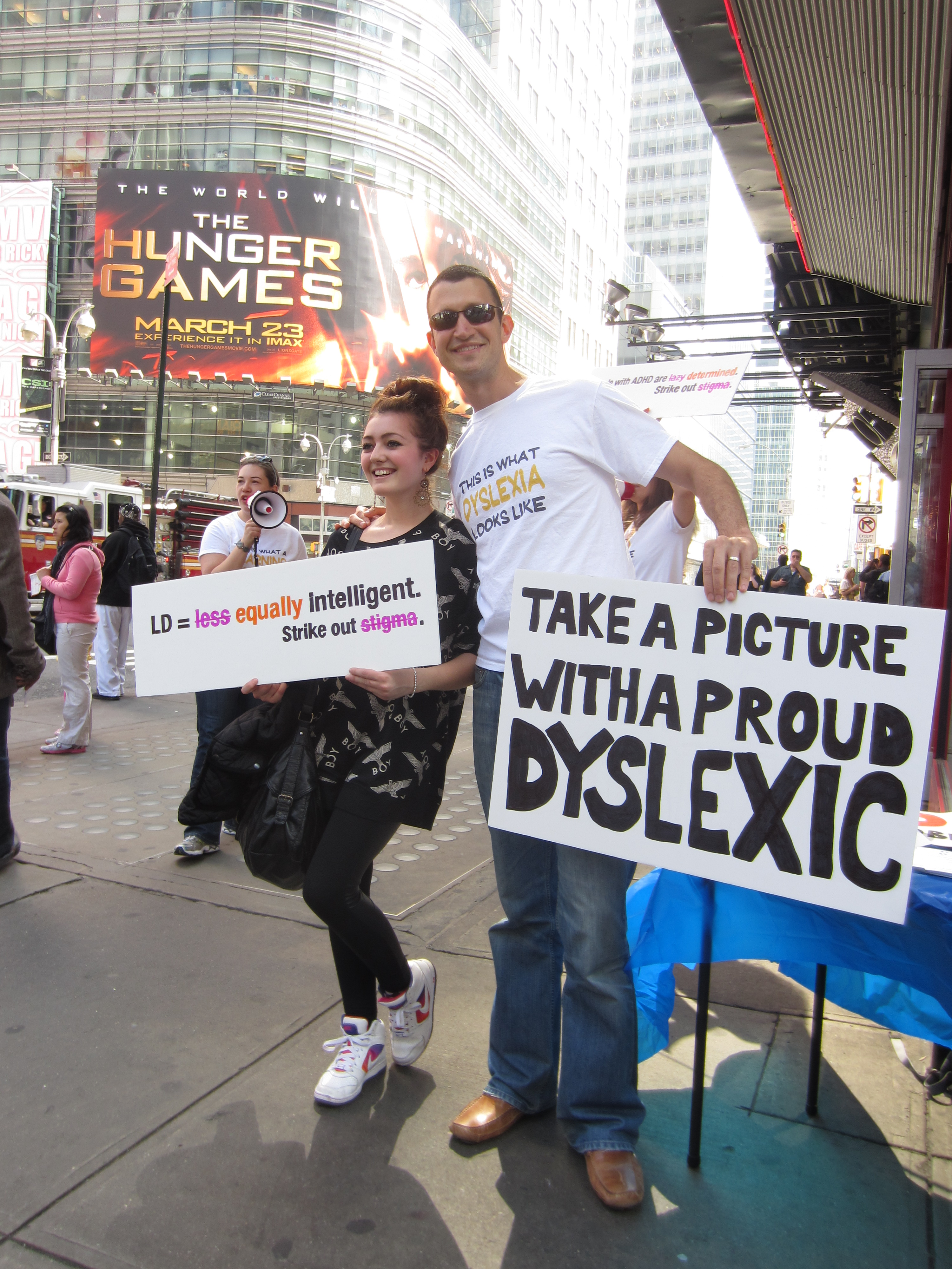 A girl holding a sign that says "LD = Less equally intelligent / Strike out stigma" poses for a photo in Times Square with a man holding a sign that says "Take a picture with a proud Dyslexic]